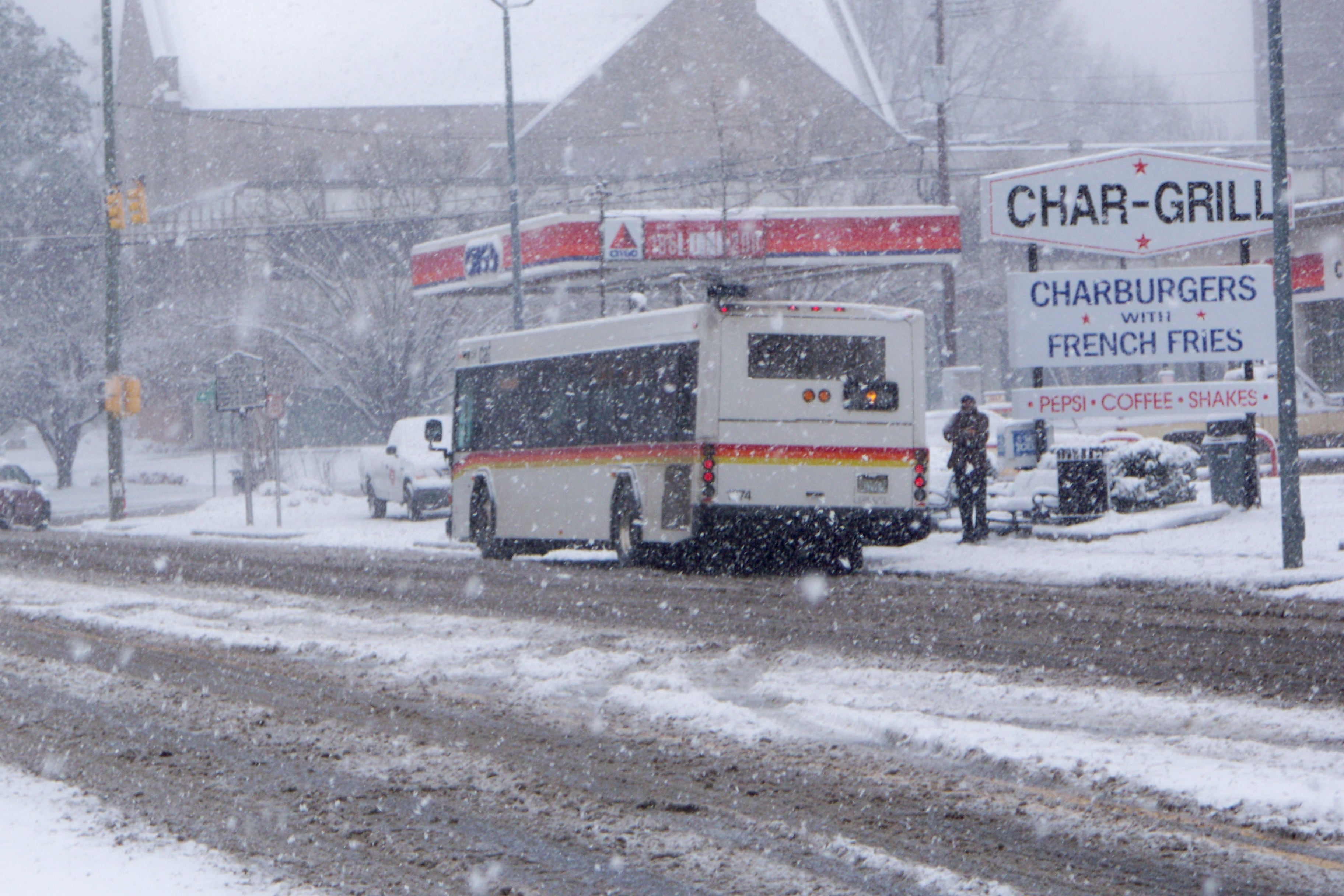 CAT BUS on Hillsborough St. on a Snowy Day